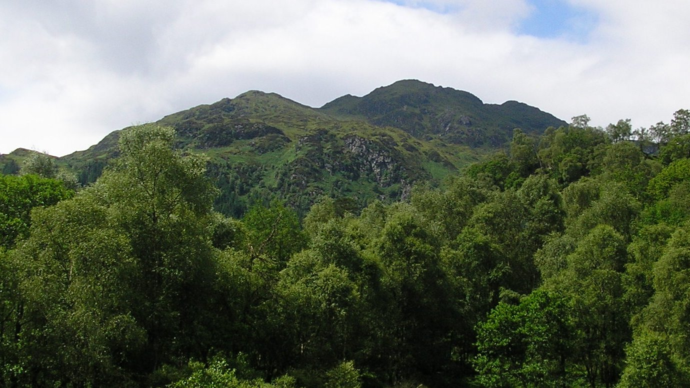 Ben Venue, seen rising above Achray Forest